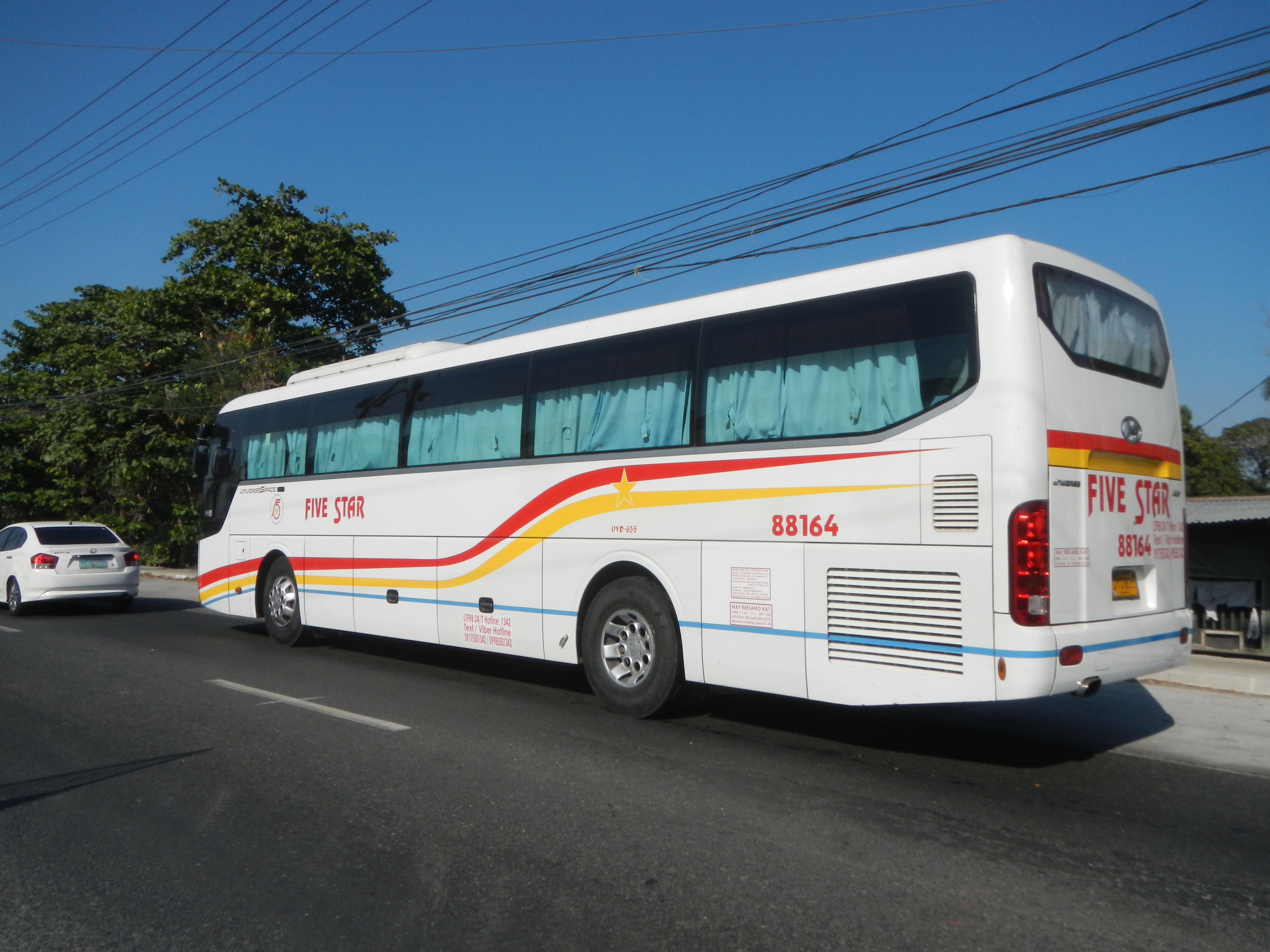 Traffic congestion in the Philippines due to a road accident and road works constructions in Barangay Sampaloc to Capihan, San Rafael, Bulacan, (accessed along and from the Maharlika Highway (Cagayan Valley Road, Baliuag-Pulilan-Guiguinto, Bulacan) to the Maharlika Highway (Cagayan Valley Road, San Rafael-San Ildefonso, Bulacan section) of the Pan-Philippine Highway, also known as the Maharlika "Nobility/freeman" Highway or Asian Highway 26, Cagayan Valley Road).